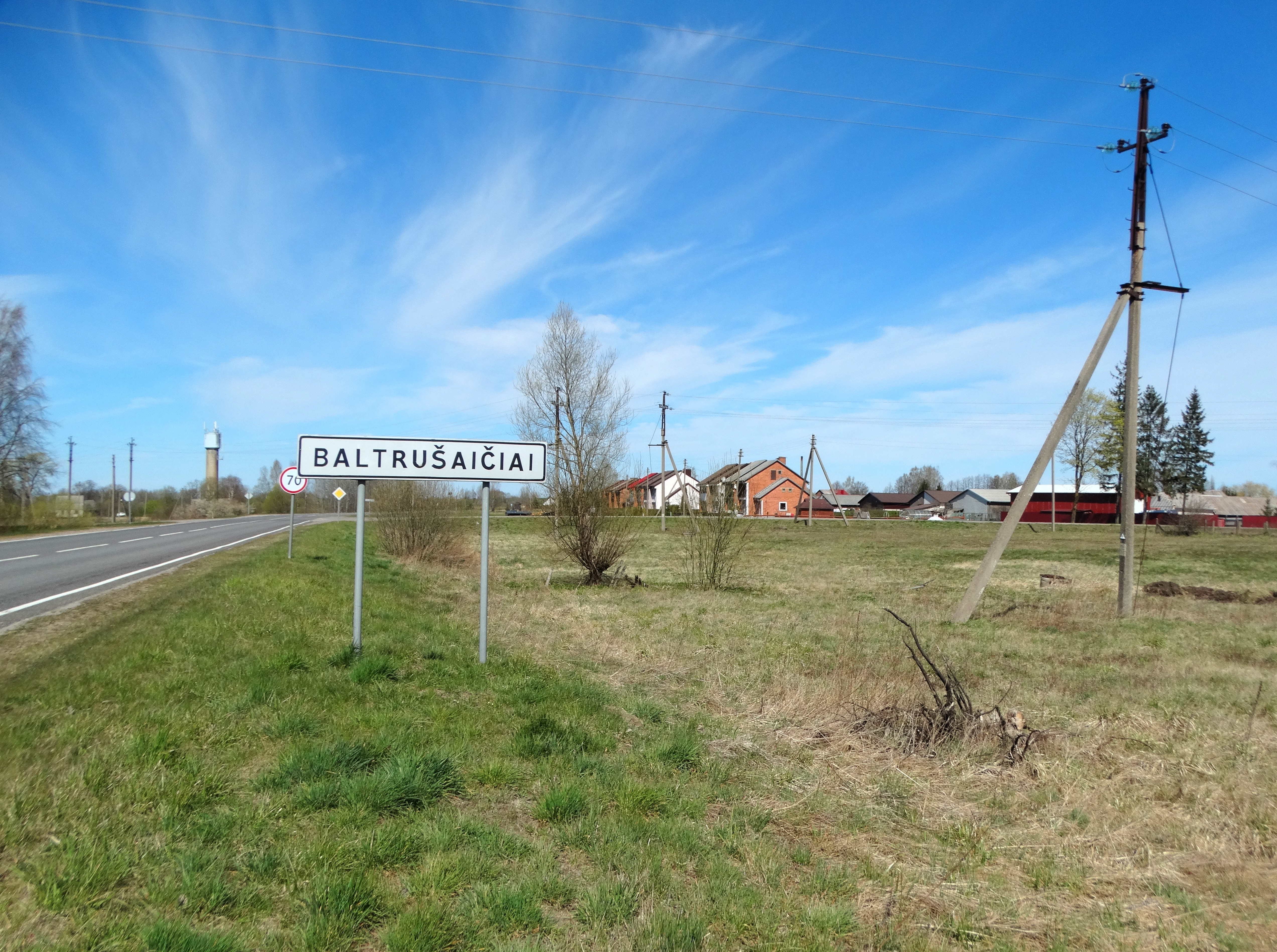 Baltrušaičiai, Tauragė district, Lithuania